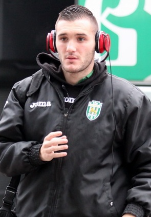 Lucas Pérez Martínez